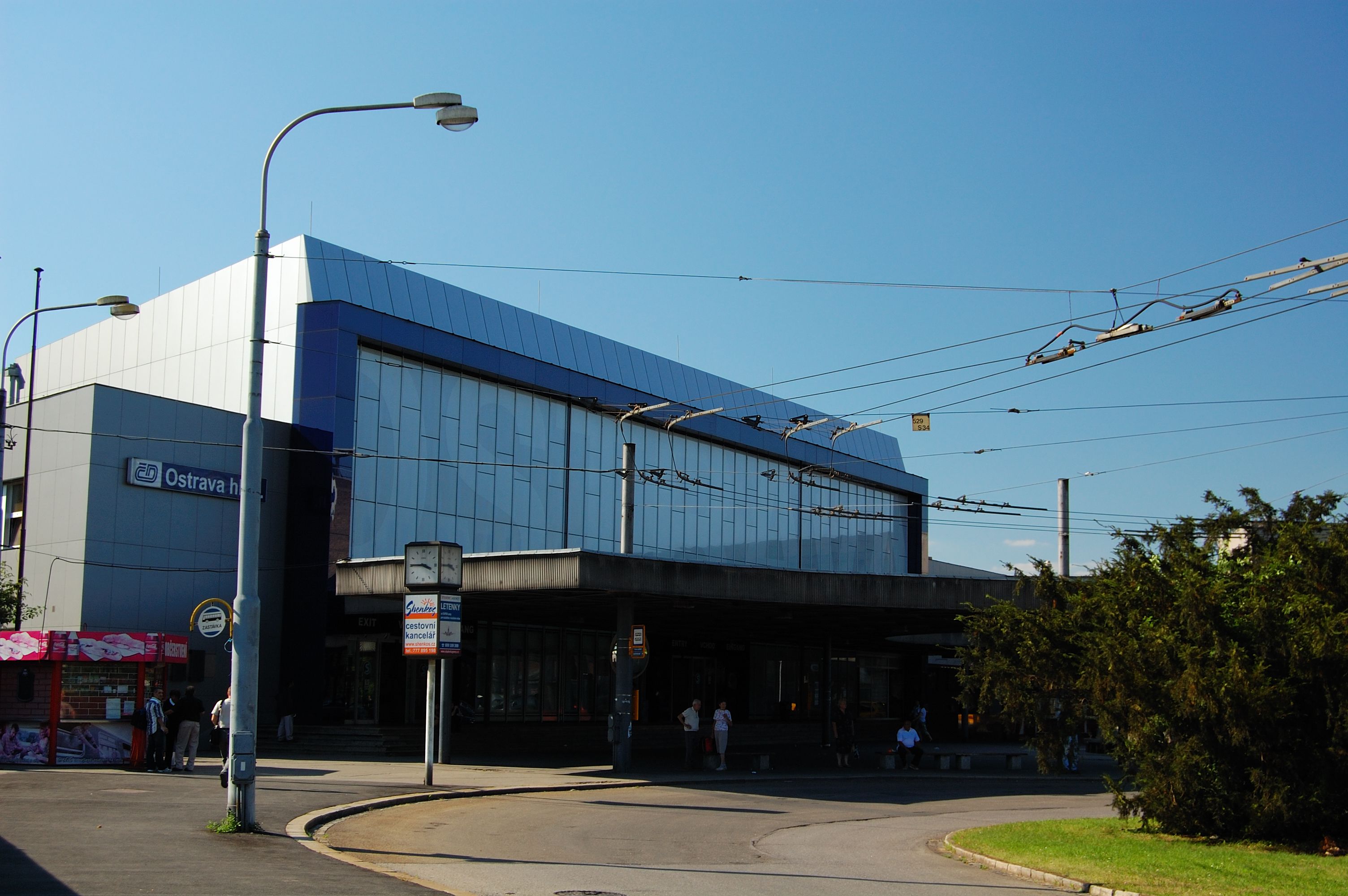 The main railway station of Ostrava, Czech Republic.